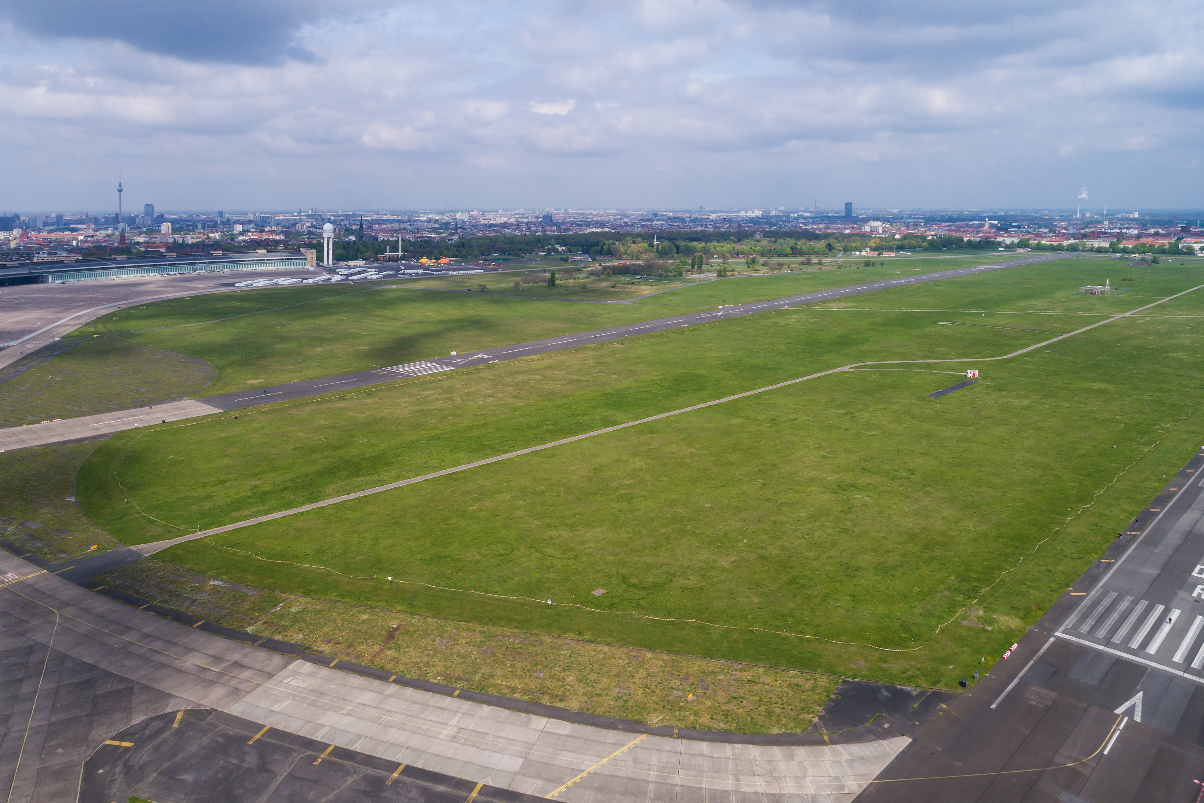 Former airfield of Tempelhof Airport in Berlin (Germany)